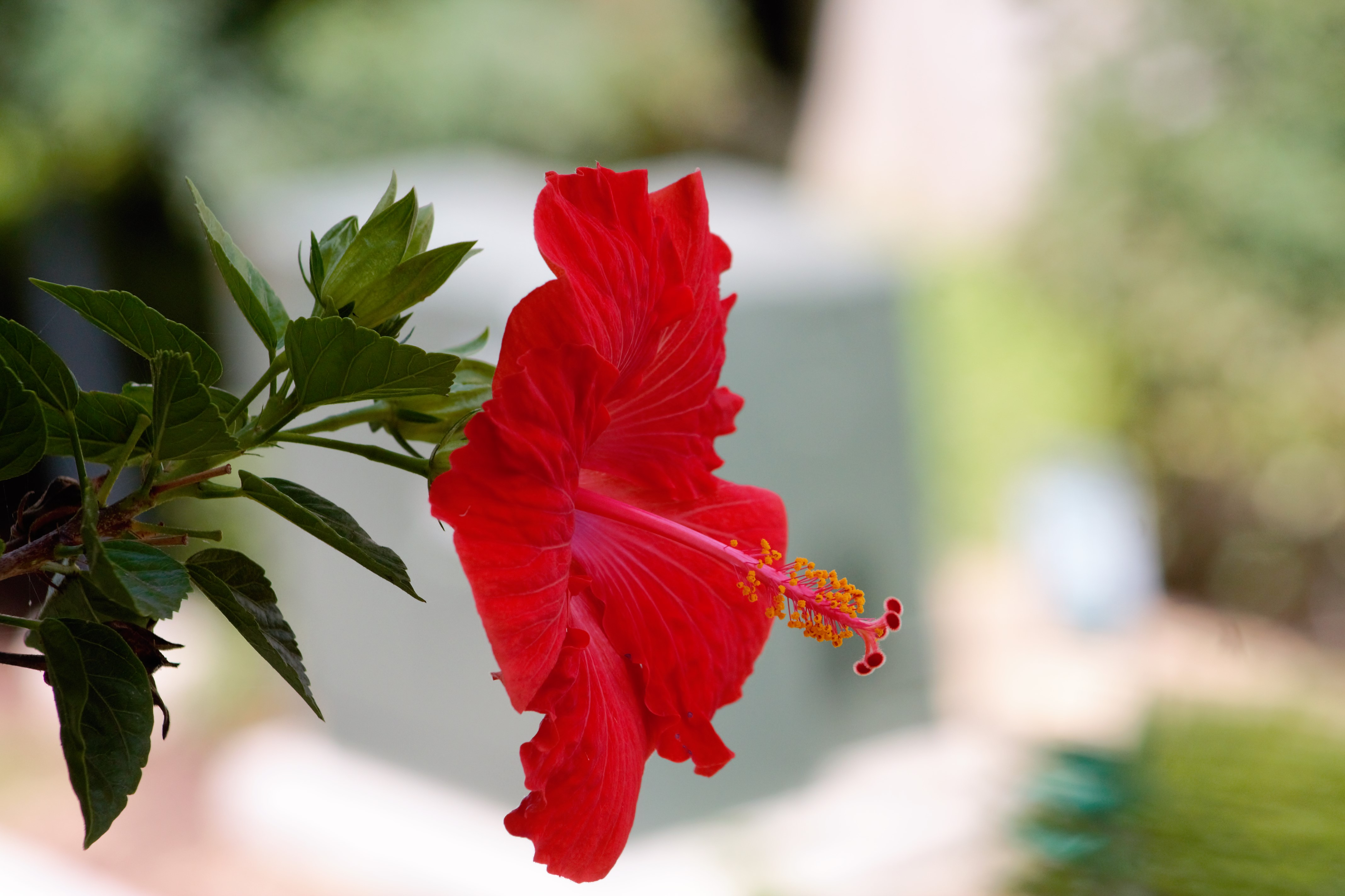 Hibiscus flower displaying the Petals, Style, Stigma and Anthers prominently. Sepals of the Calyx (in the flower) are hidden behind the petals while they can seen nearby of a fallen flower.